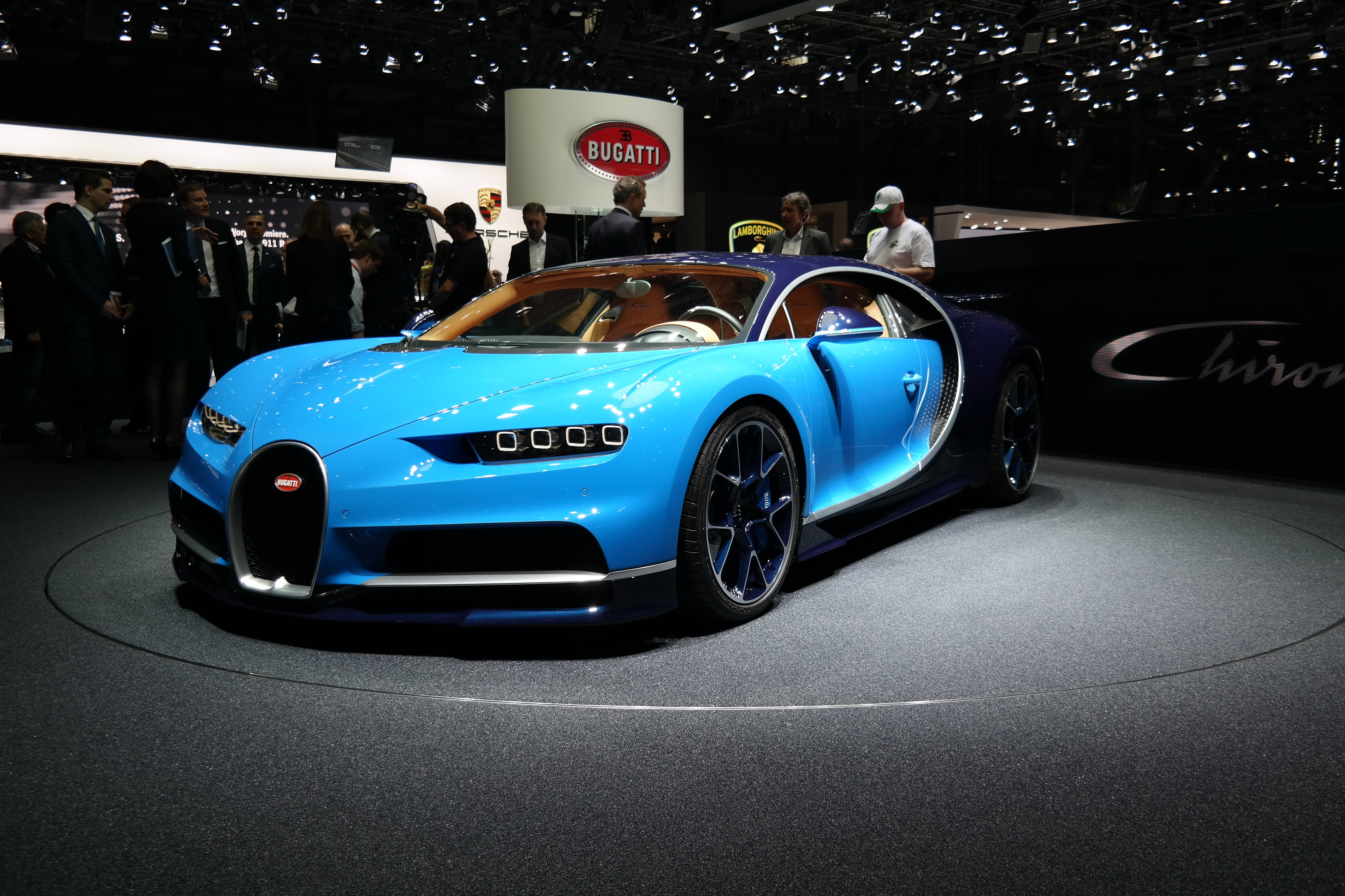 Geneva Motor Show 2016 (photo taken on the first press day)